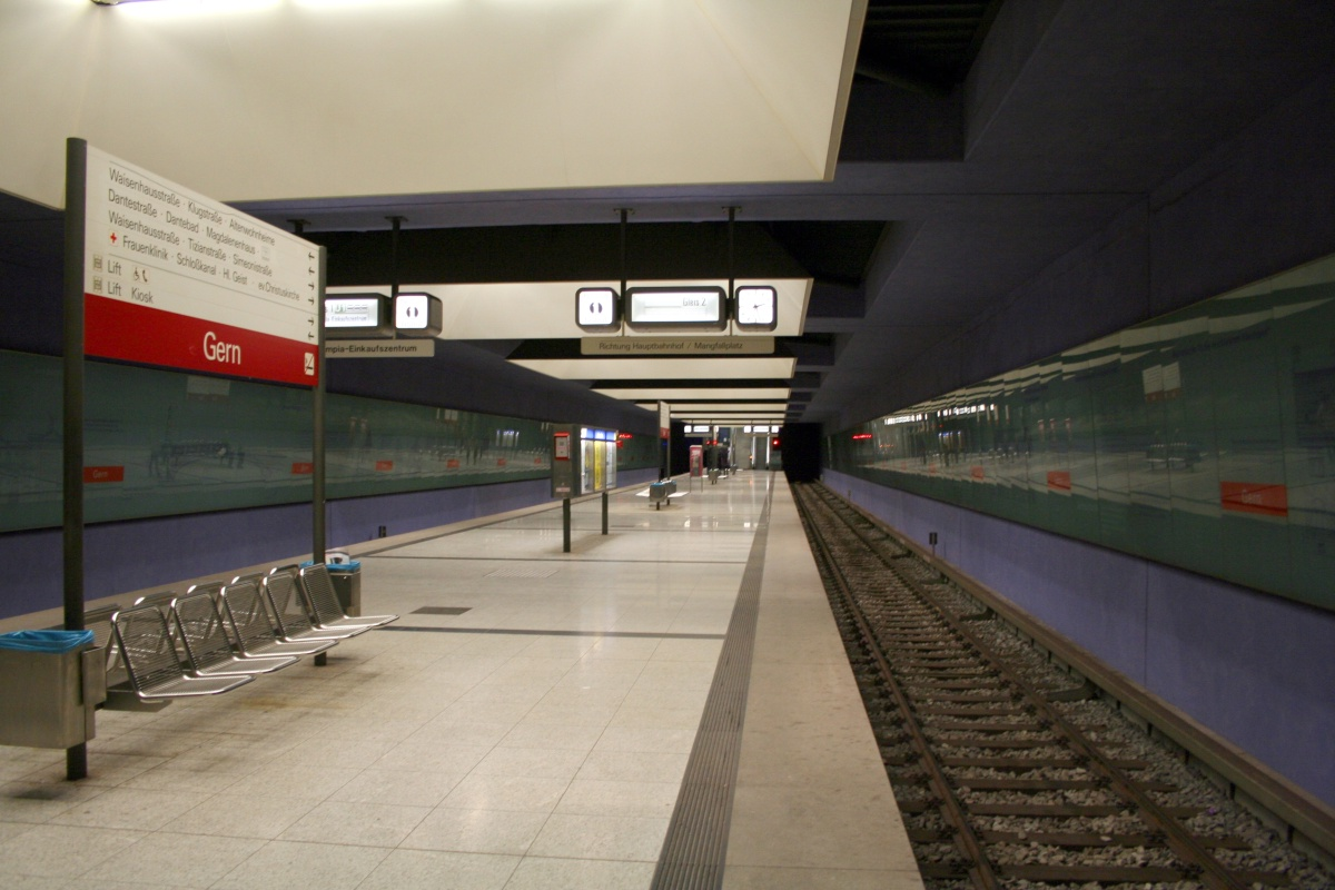 Munich subway station Gern